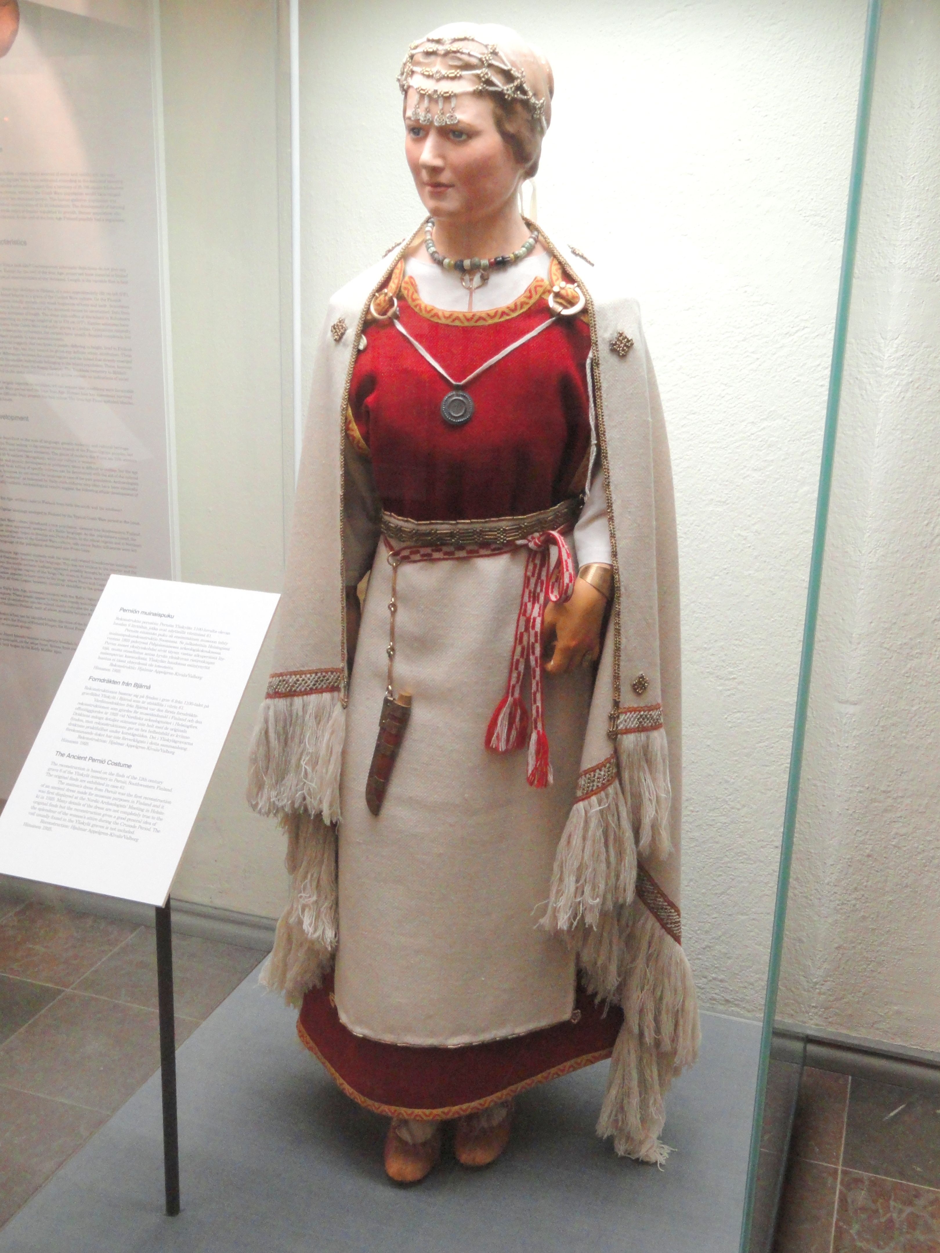 Perniö costume reconstruction, from 12th century grave. On exhibit in the Archaeological collections, National Museum of Finland, Helsinki, Finland.